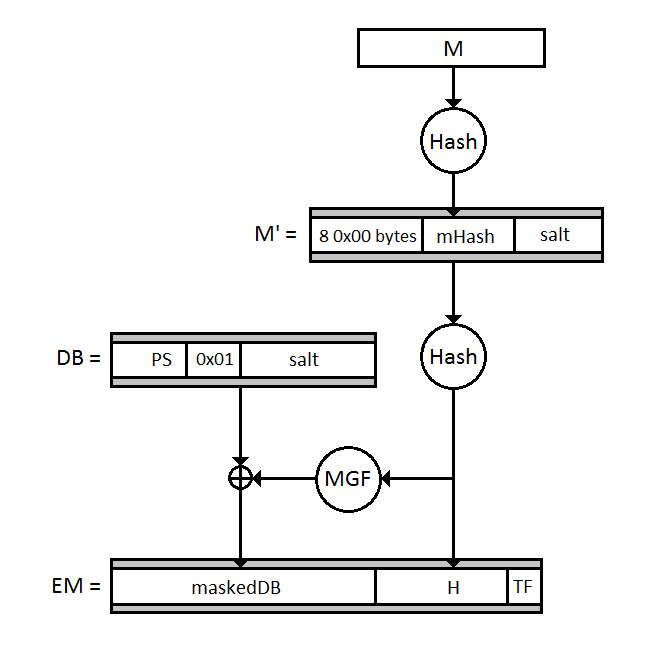 illustration for PSS-encode function of RSASSA-PSS